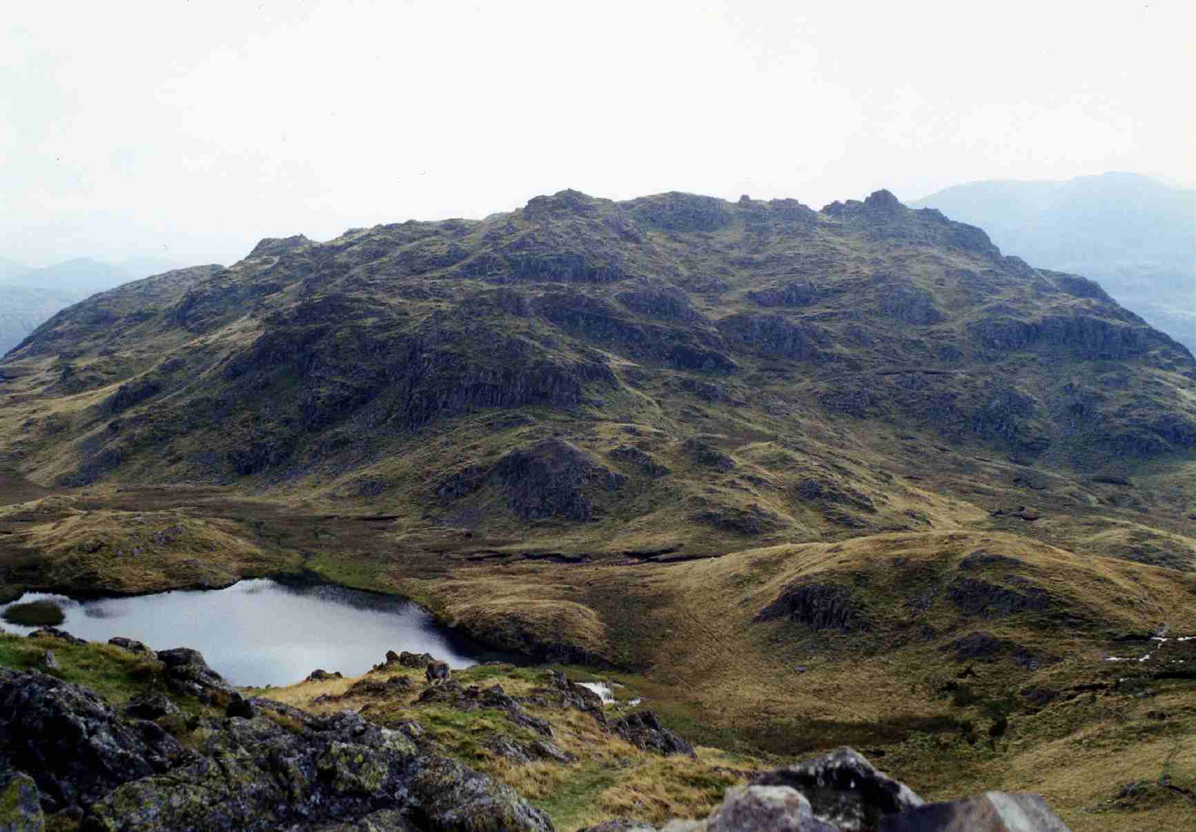 Personal photograph taken by Mick Knapton